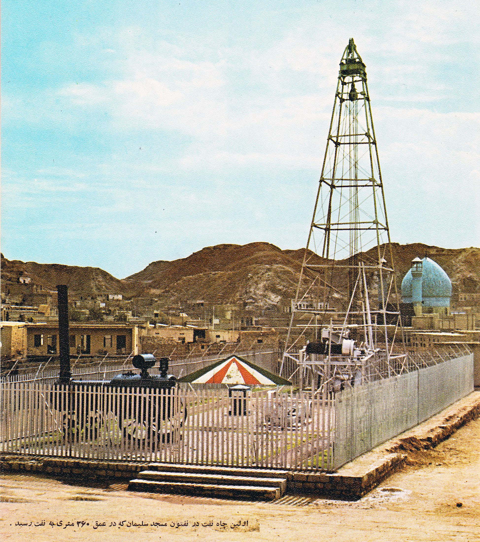 The very first oil resource found and drilled in Naftoun in Masjed Solayman Iran. At the depth of 350 meters the oil was found.